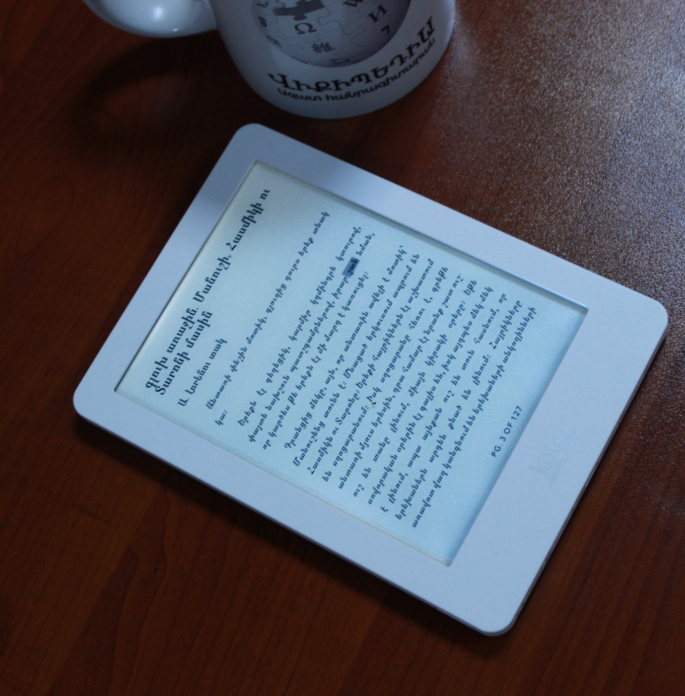 Kobo Glo ereader; on the screen: first page of the book "Tsipili, Timbaka & the laughter․"